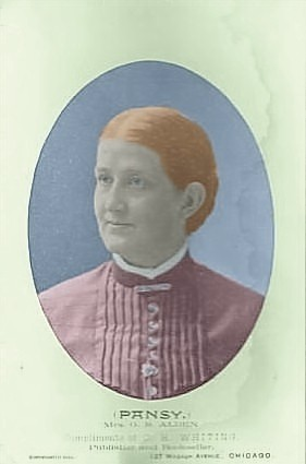 Isabella Macdonald Alden, aka Pansy, aka Mrs. G. R. Alden, c. 1886, author of several novels.